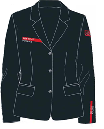 Part of the uniform of the Austrian finance police